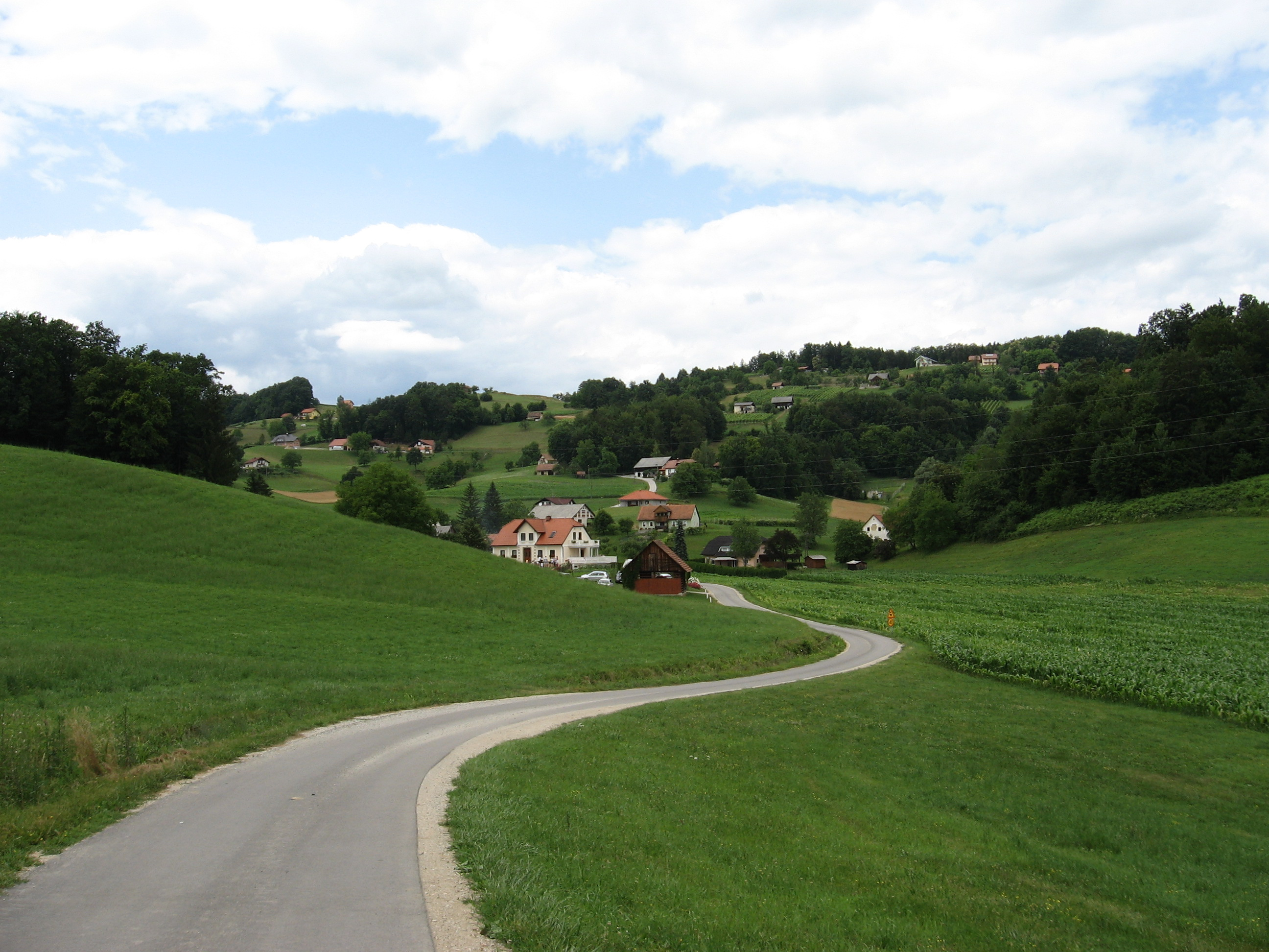 Bobovo, settlement in Šmarje pri Jelšah, Slovenia. Upper part are Pijovci.